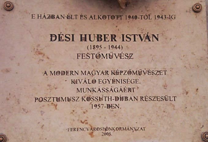 István Dési Huber commemorative plaque in Budapest District IX, Ipar Street No 11. Creator: András Beck.